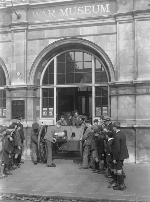 IWM caption : The Vickers QF 13pdr Horse Artillery Gun of E Battery, Royal Horse Artillery, leaves the Imperial War Museum's building in South Kensington, to take part in the unveiling of C S Jagger's Memorial to the Royal Artillery at Hyde Park Corner, London on 18 October 1925. During the First World War, the gun fired the first British round on the Western Front on 22 August 1914 and was also one of the last to fire before the Armistice came into force in 1918.